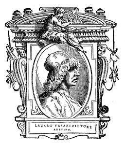 Illustratio from "Le Vite" by Giorgio Vasari, edition of 1568. For the artist portrayed see filename